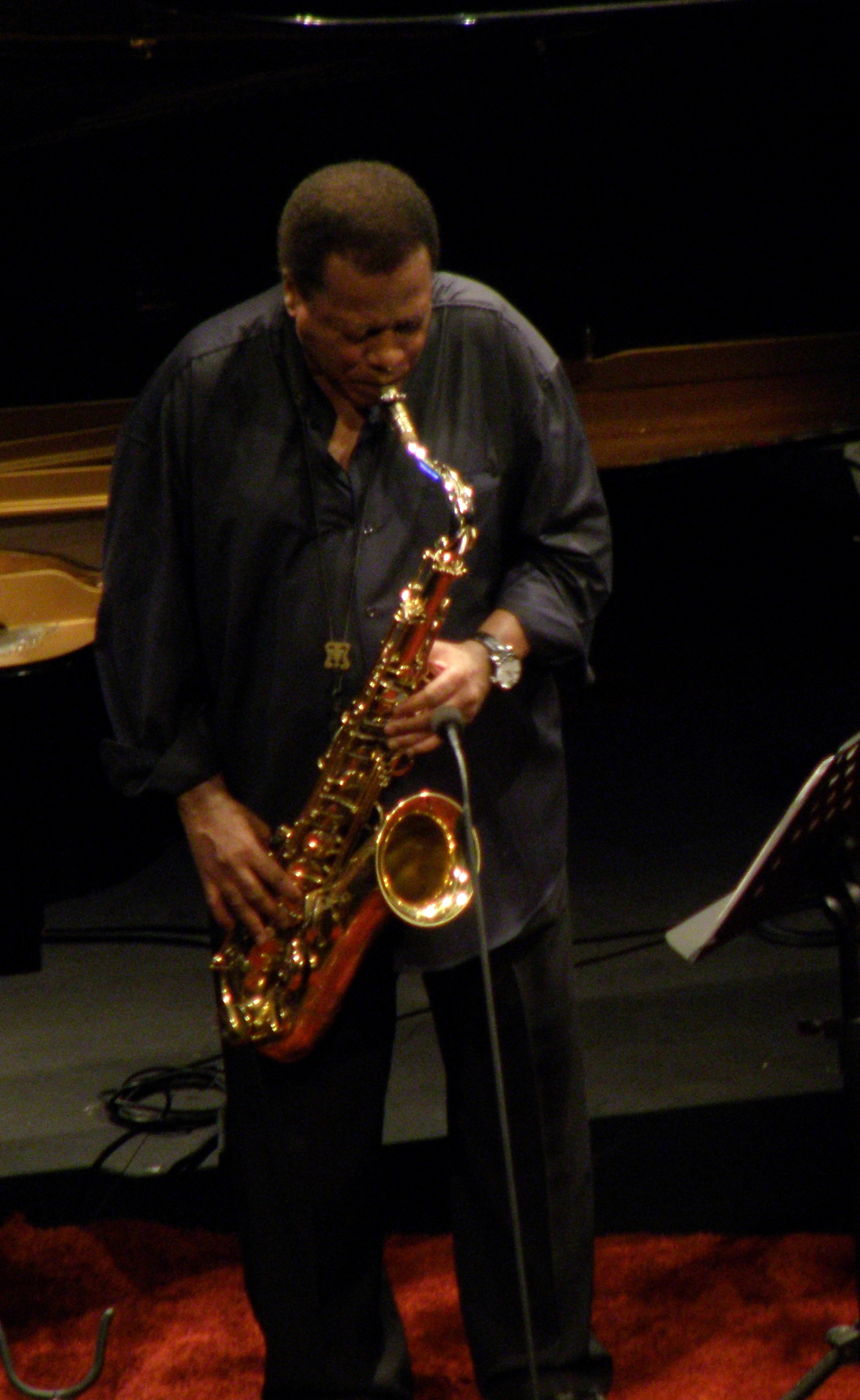 Wayne Shorter playing his saxophone, in concert with his quartet at the Teatro degli Arcimboldi, Milano, on the 28th June 2010.